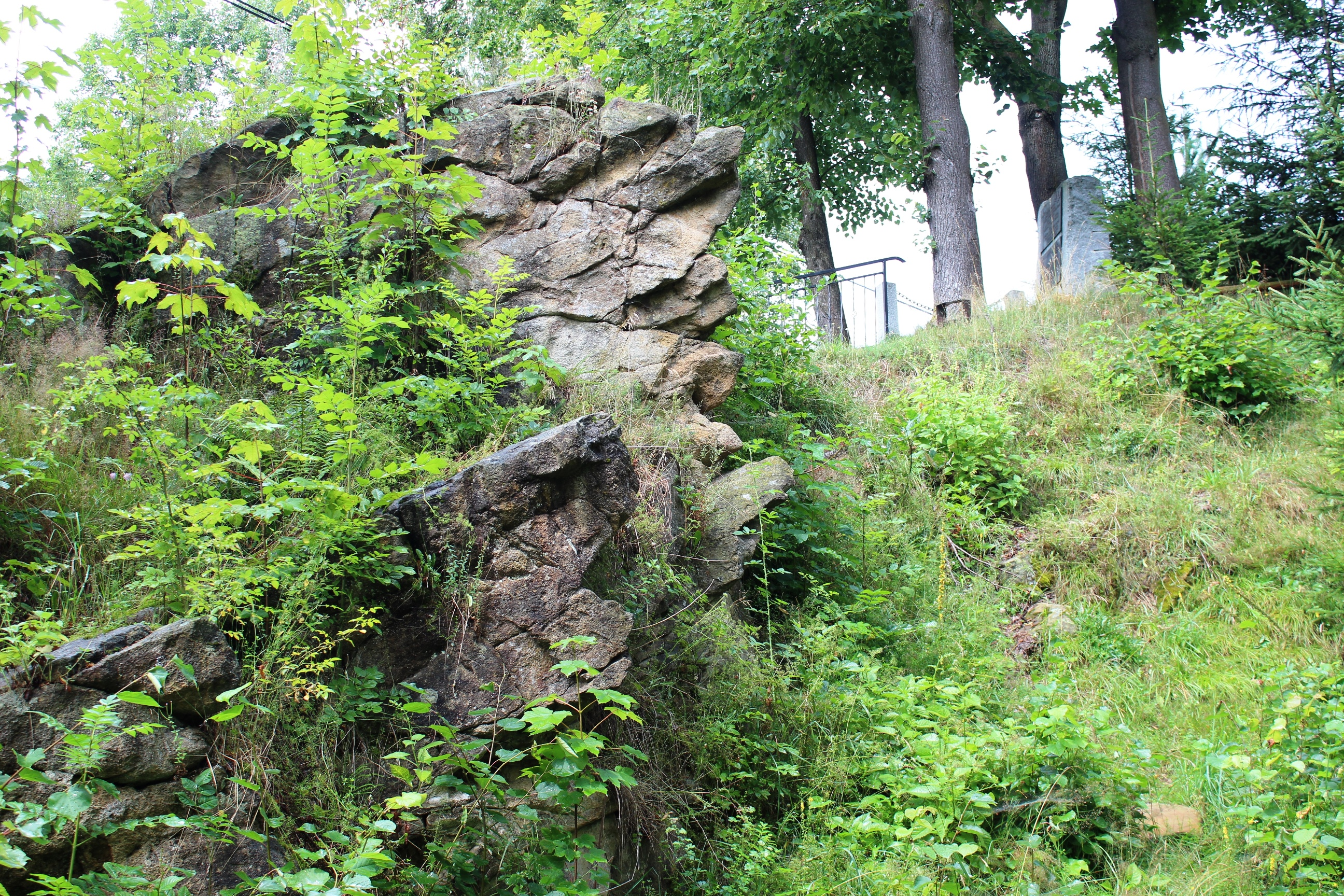 Łomniczanka natural monument